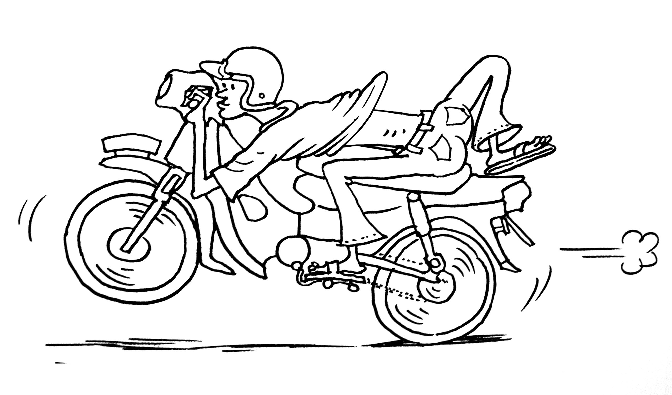 Aerodynamic pose of Malaysian's Mat Rempit - MatRempit001.jpg